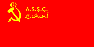 Flag of Azerbaijan till 1930